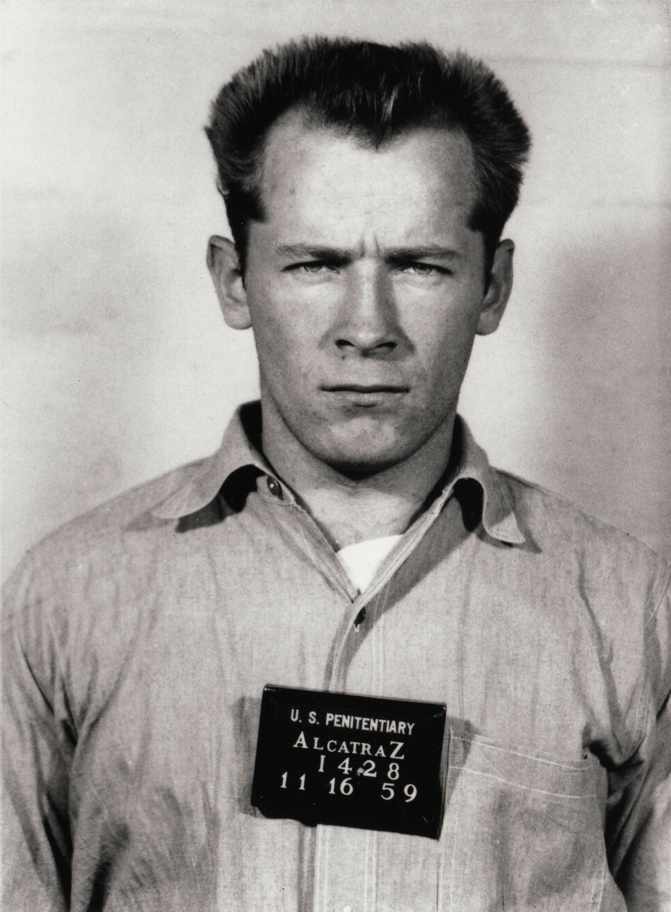 Mug shot of James J. Bulger.